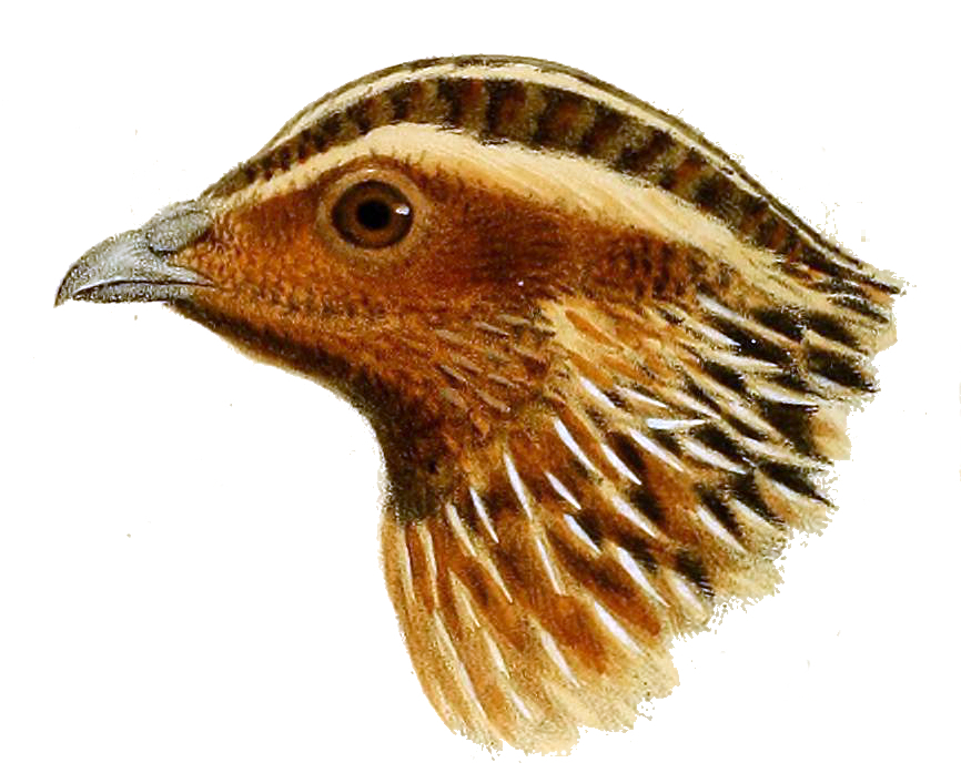 Drawing of head of Corturnix capensis (Coturnix coturnix africana).